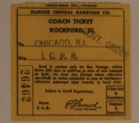 US military issued train ticket between Rockford and Chicago dated December 1957, evidence/ court exhibit in People v. McCullough murder trial, for use on the article Murder of Maria Ridulph